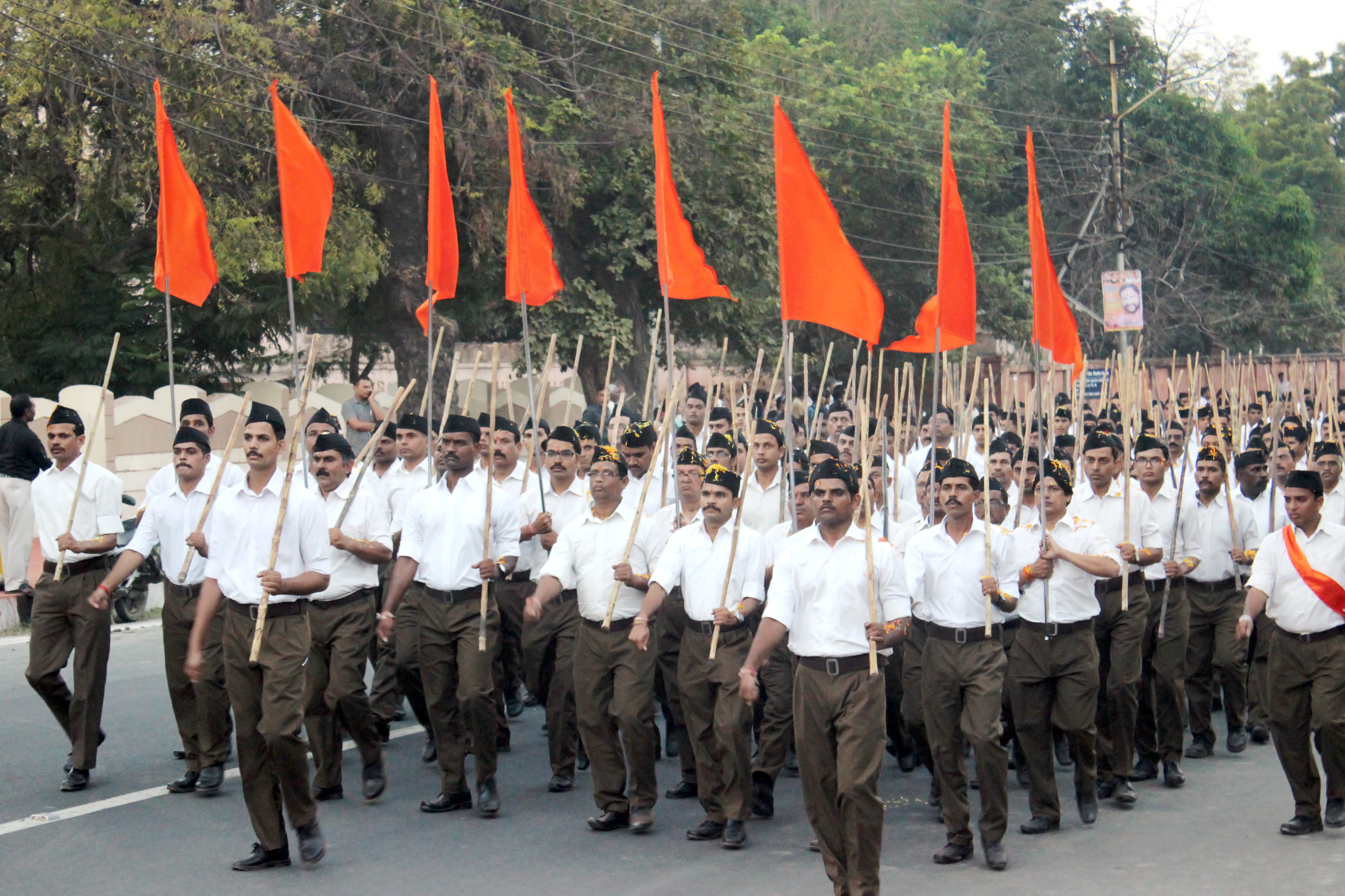 Path Sanchalan Bhopal by Rashtriya Swam Sevak Sangh